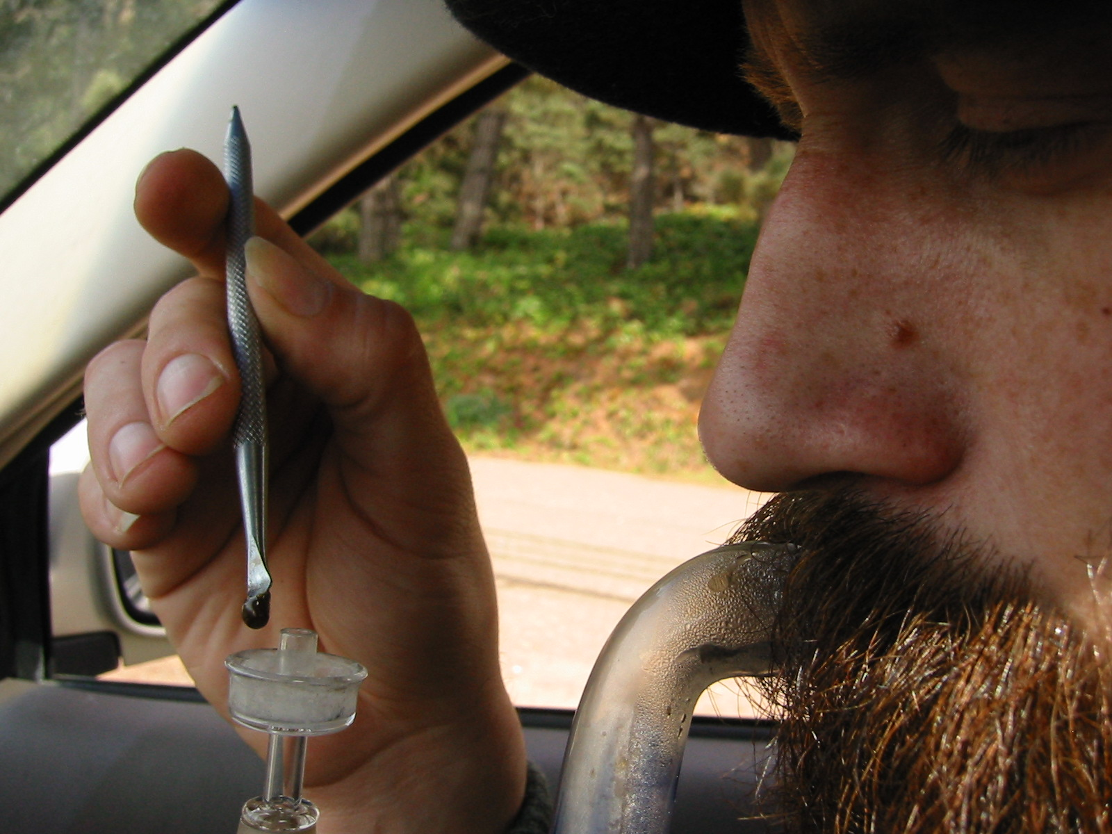 el Dabo